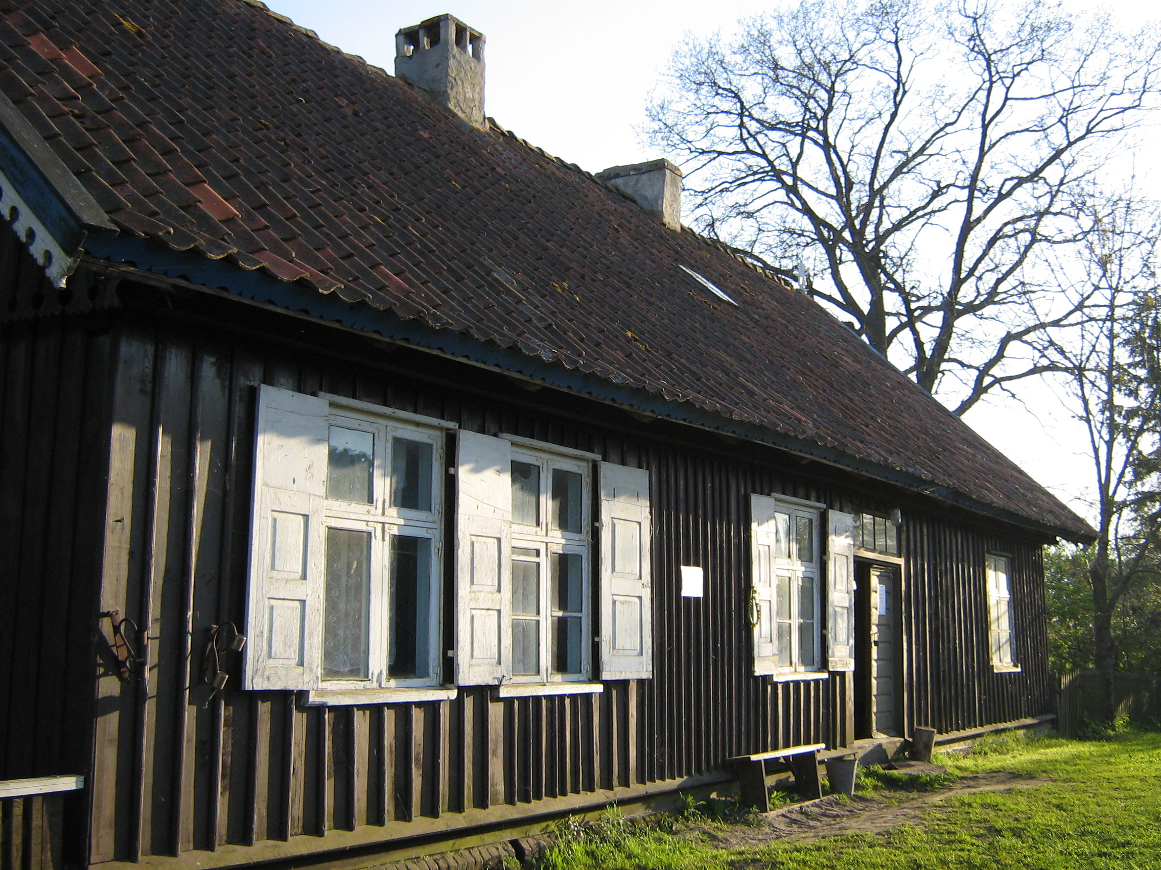 Ethographic museum near Rusnė